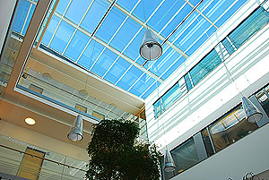 Parkinson-Klinik Wolfach